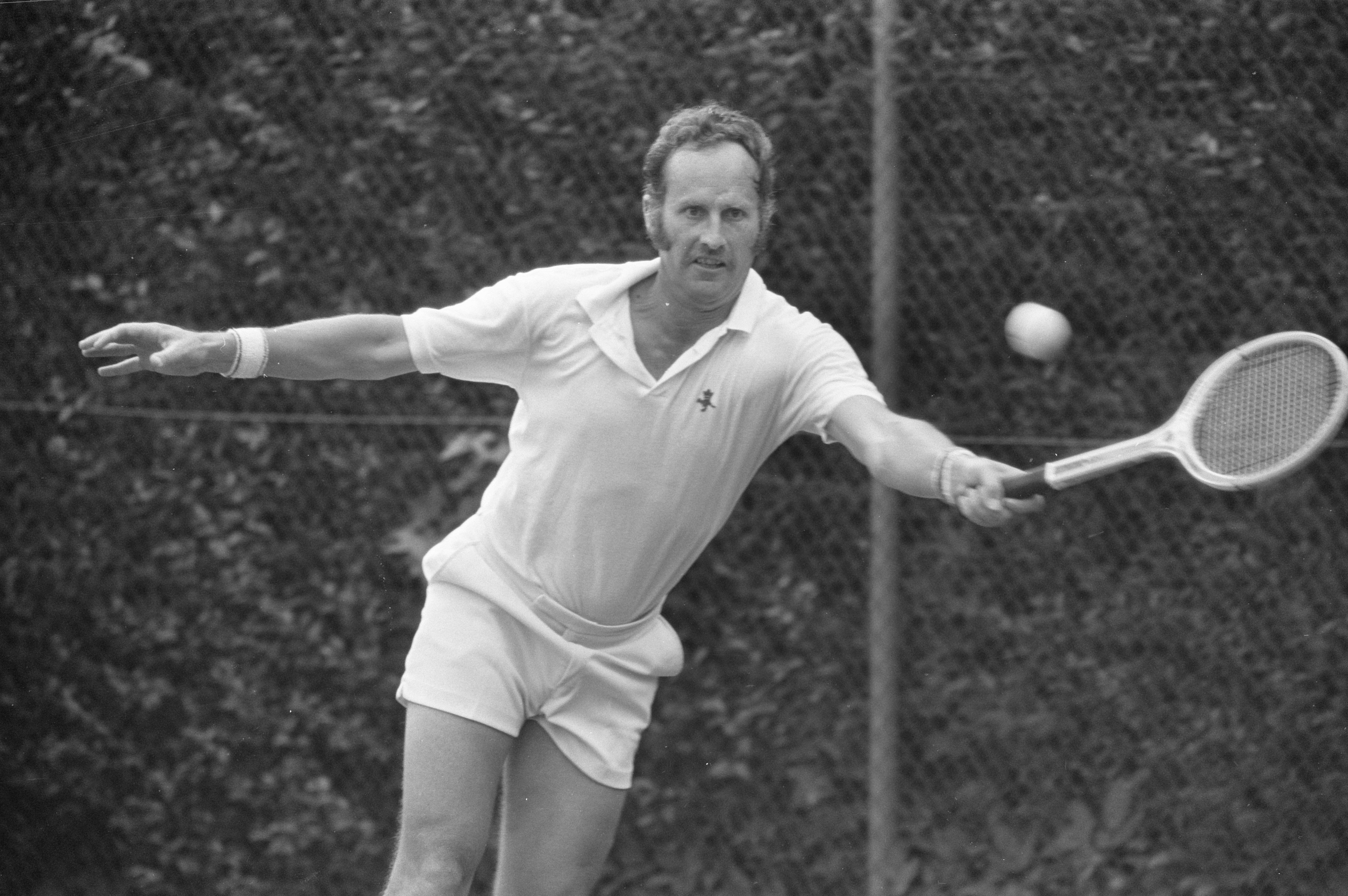 Australian tennis player Neale Fraser at the 1972 Dutch Open tournament in Hilversum